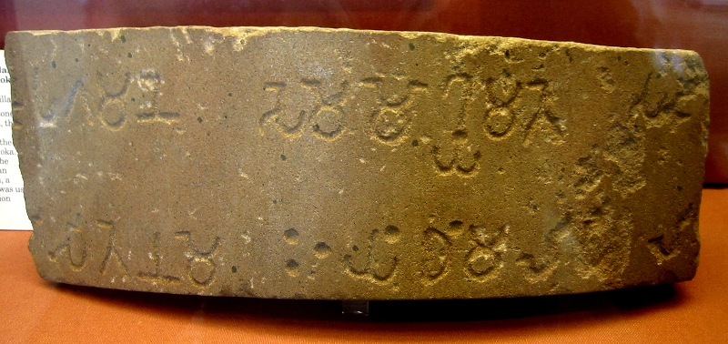 6th pillar edict of Emperor Asoka (r. 265–238 BC). Sandstone, Mauryan dynasty, around 238 BC. Probably from the Meerut Pillar, Uttar Pradesh, India.